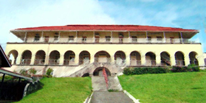 OECS Secretariat, Morne Fortune, Castries, St. Lucia